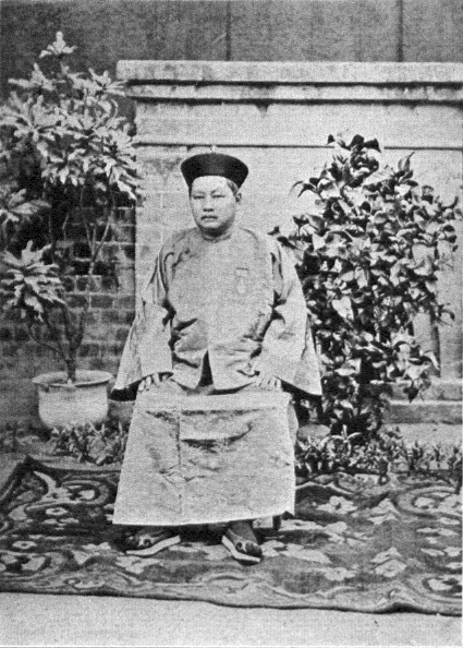 Taw Sein Ko, Superintedent of the Archaeological Survey Department in British Burma